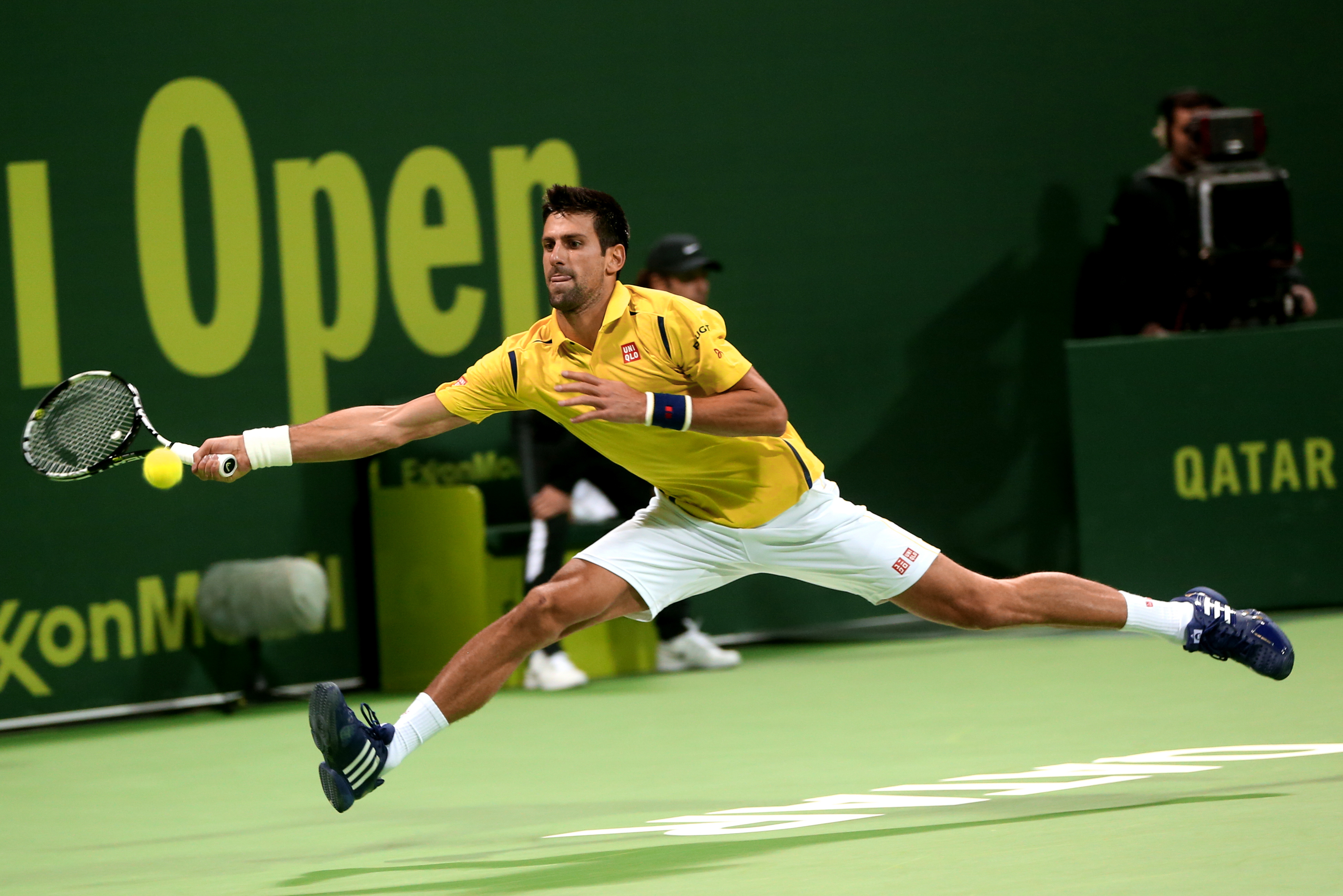 Novak Djokovic at Qatar Open photo by Hanson K Joseph